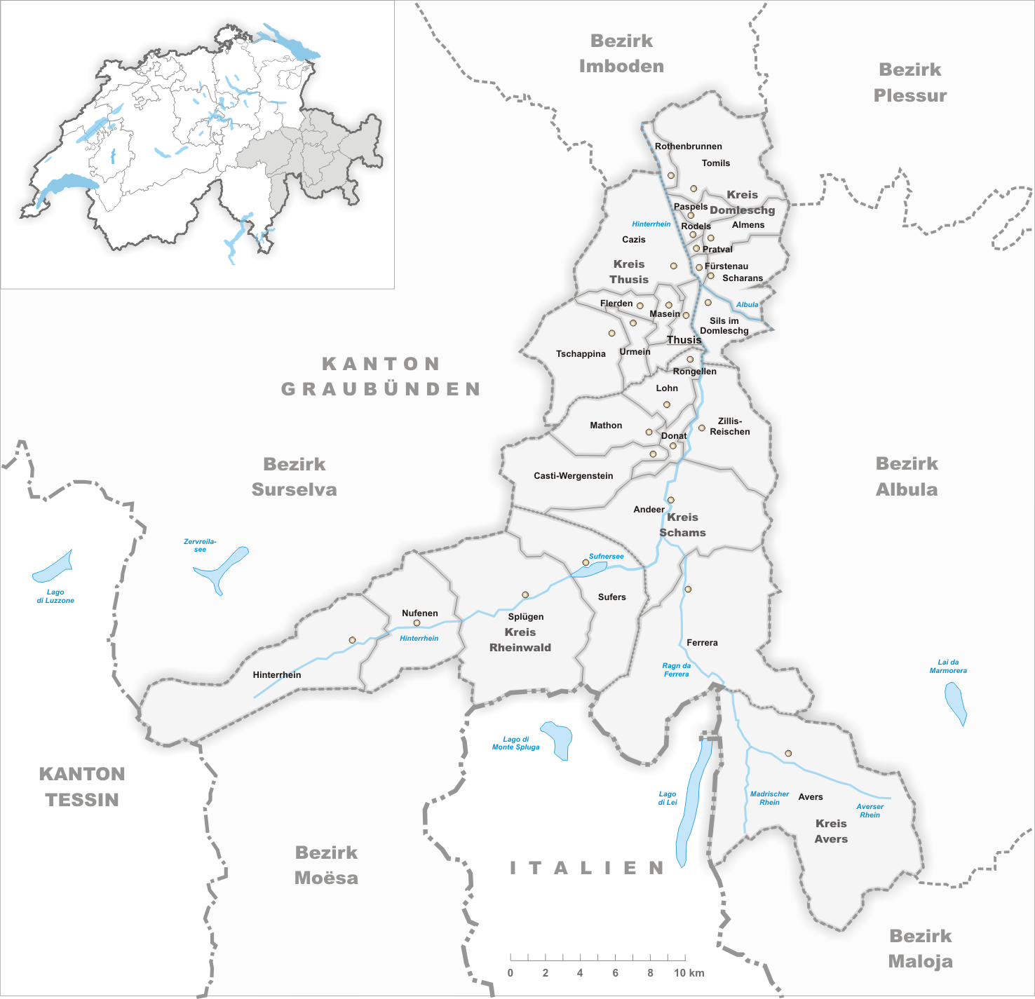 Municipality in the District of Hinterrhein Artist: Tschubby